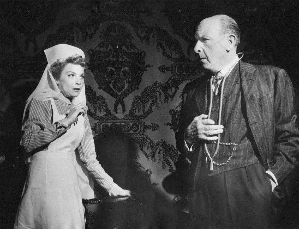 Photo from the television anthology series Climax! The presentation is "Strange Death at Burnleigh". Sir Cedric Hardwicke plays Dr. Martin Crandall and Joan Tetzel plays Ann Laird, his nurse. The item has no copyright markings on it as can be seen in the links above.